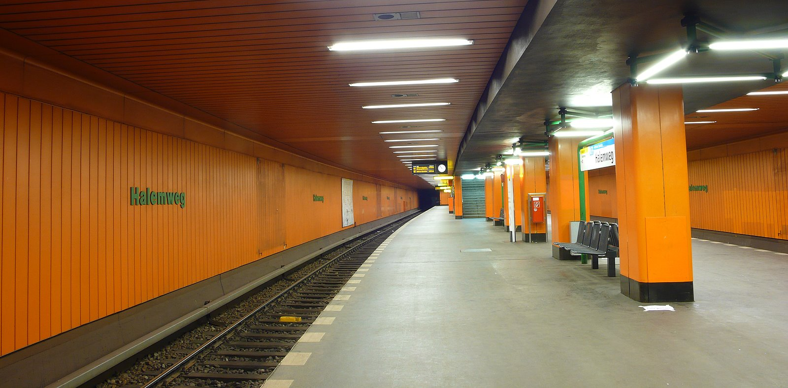 Subway Halemweg Berlin